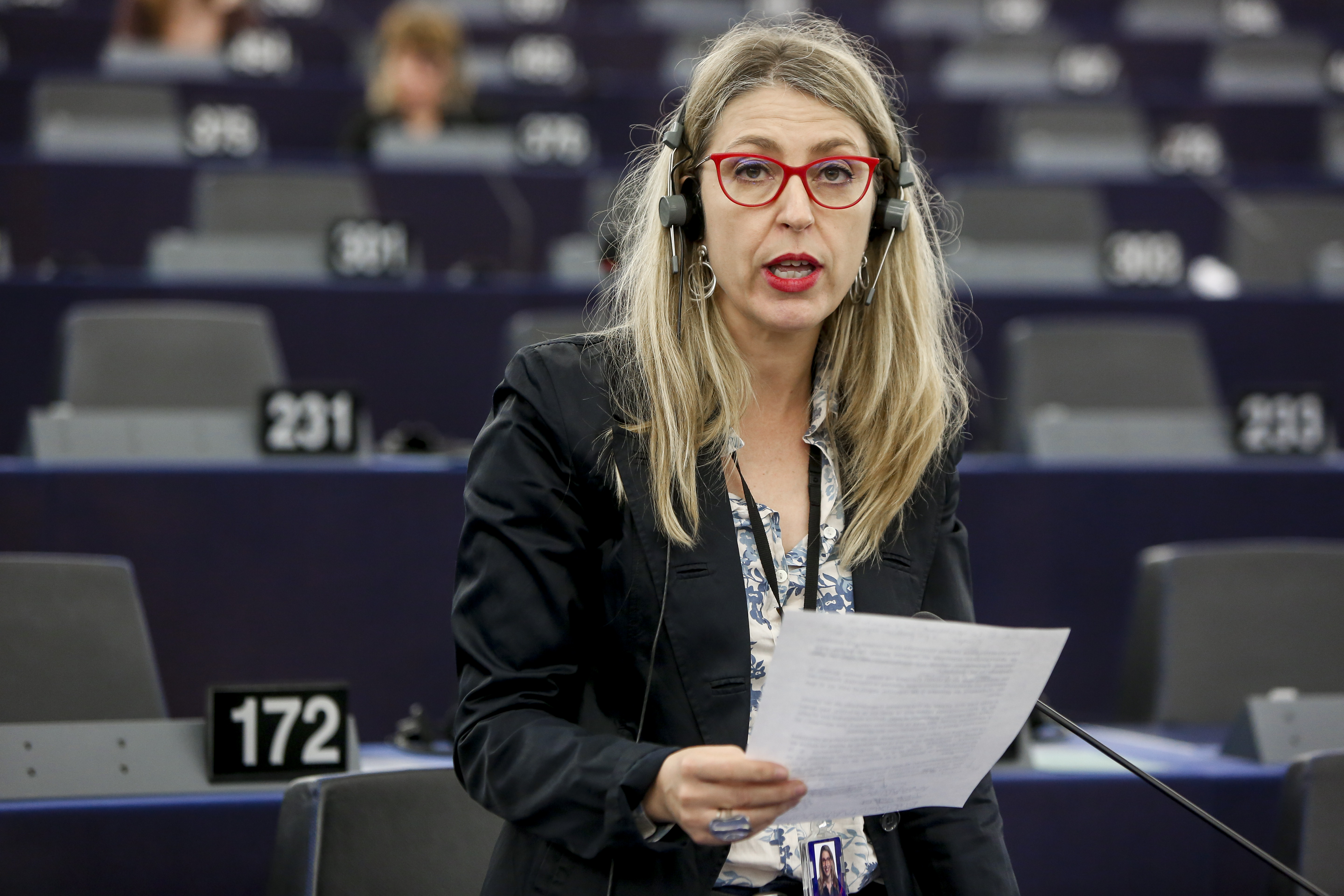 Plenary session - Taking forward the Horizontal anti-discrimination Directive